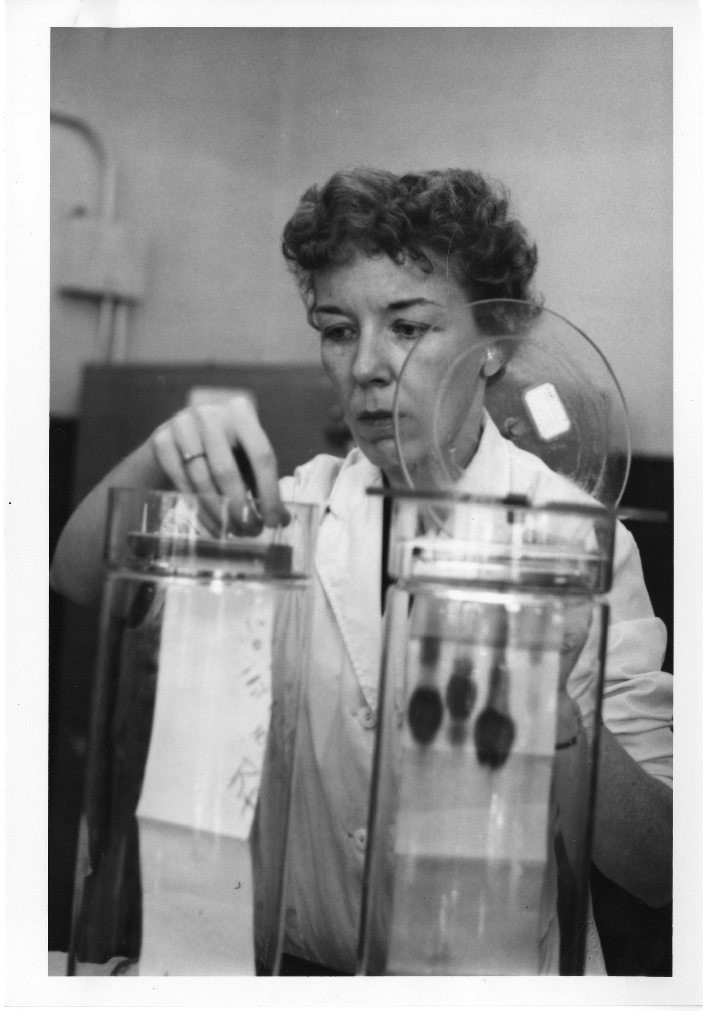 Subject: McWhinnie, Mary A DePaul University Type: Black-and-White Prints Date: 1962 Topic: Biology Scientific expeditions Local number: SIA Acc. 90-105 [SIA-SIA2008-5738] Summary: Mary Alice McWhinnie (1922-1980) was a professor of biology at DePaul University and a world-renowned authority on krill when she began working on research ships off-shore in 1962, when this photograph was taken. The National Science Foundation eventually allowed her to winter over at McMurdo Station and in 1974, she became the first American woman to serve as chief scientist at an Antarctic research station. Cite as: Acc. 90-105 - Science Service, Records, 1920s-1970s, Smithsonian Institution Archives Place: Antarctica Persistent URL:Link to data base record Repository:Smithsonian Institution Archives View more collections from the Smithsonian Institution.